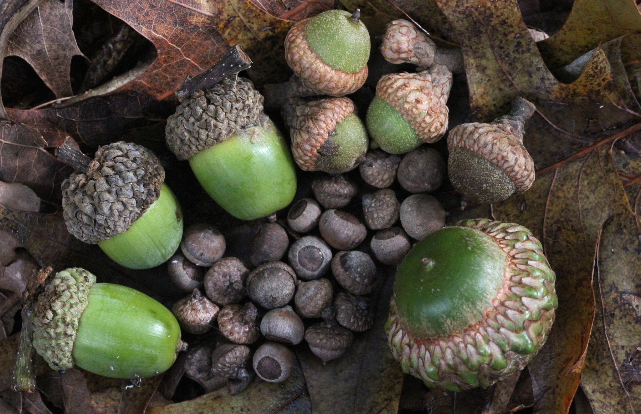 Acorns from small to large of the Willow Oak, Quercus phellos (very small, at center); the Southern Red Oak, Quercus falcata; the White Oak, Quercus alba; and the Scarlet Oak, Quercus coccinea; from southern Greenville County, SC, USA.